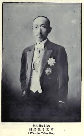 Hu Yigu (1876-？)